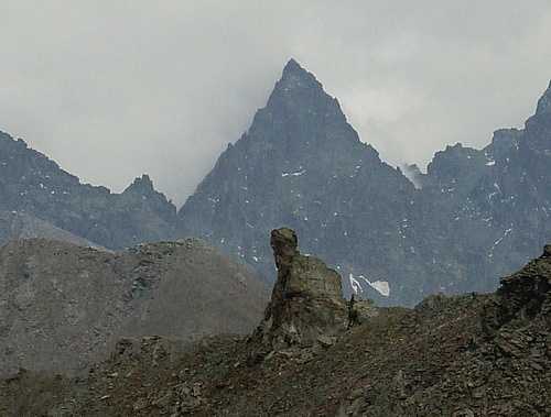 Visolotto